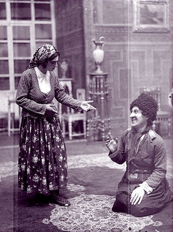 Arshin Mal Alan in Turkic workers' theatre (1928)